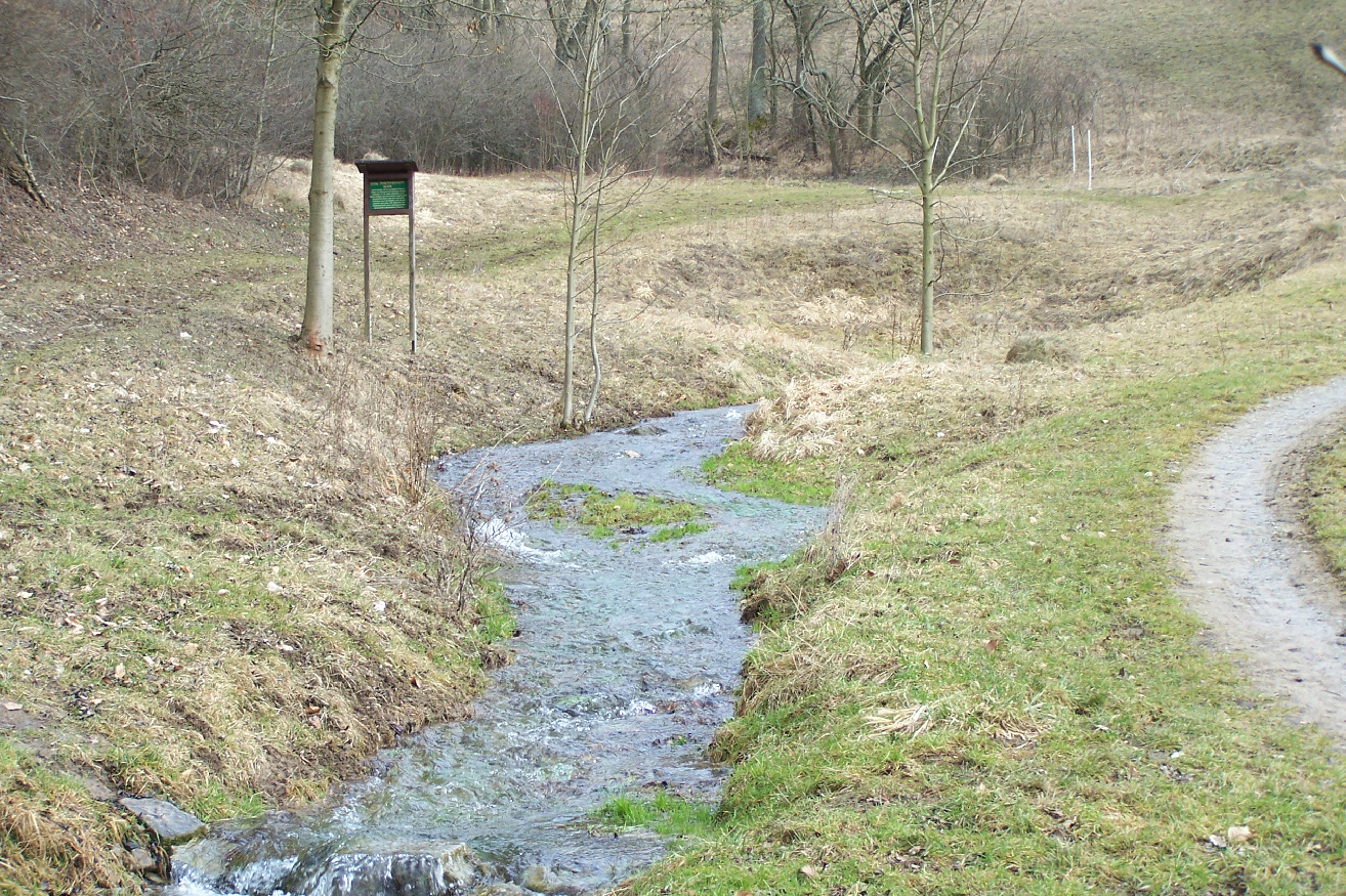 A spring named Klingborn in Ifta.